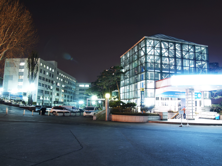 Exit #2, Hanyang University Station, Seoul Metro's subway line 2. College of International Studies.